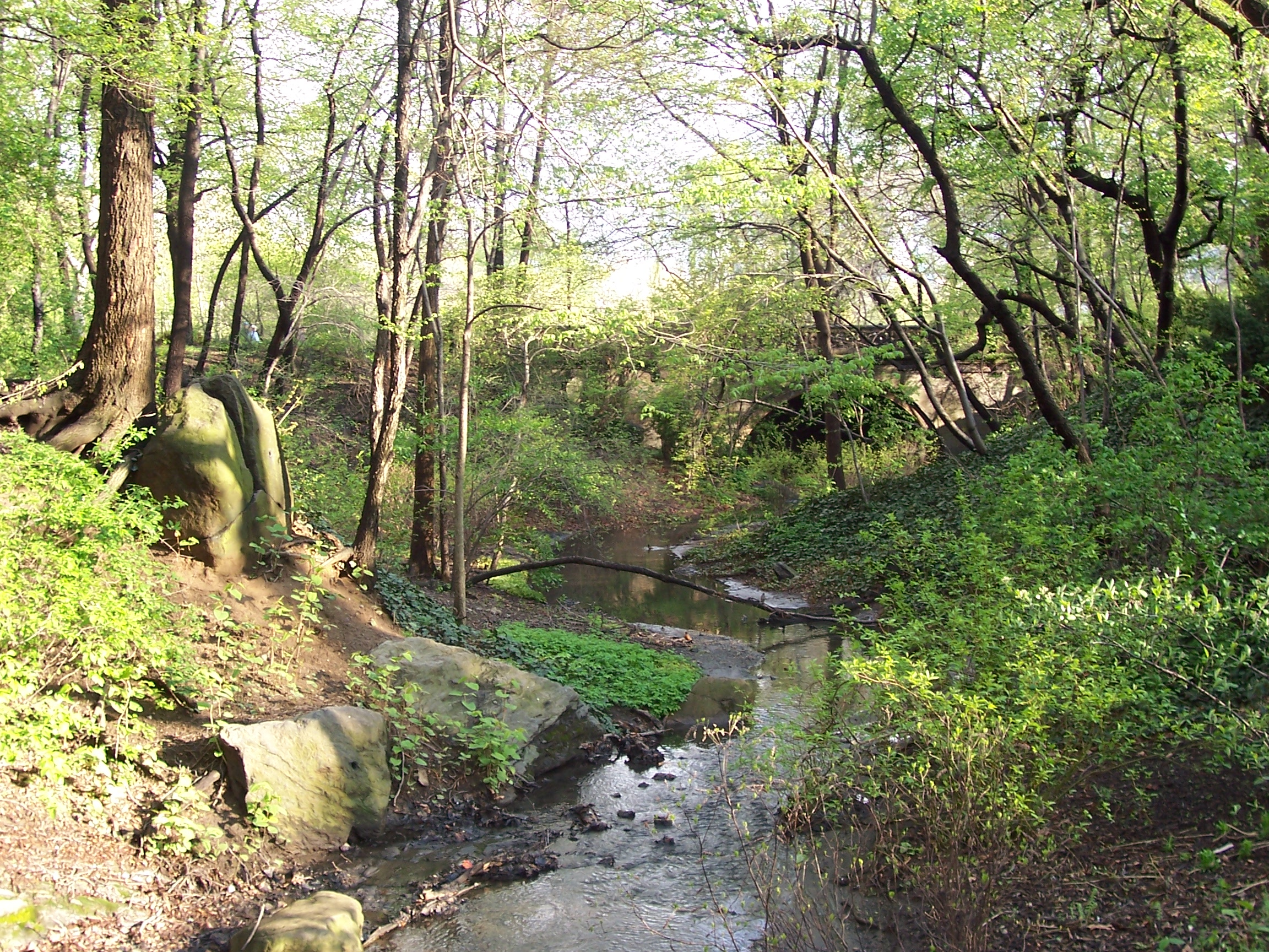 Central Park, NYC